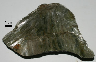 Sample of muscovite collected from a pegmatite outcrop along the Patapsco River in Baltimore County, Maryland.